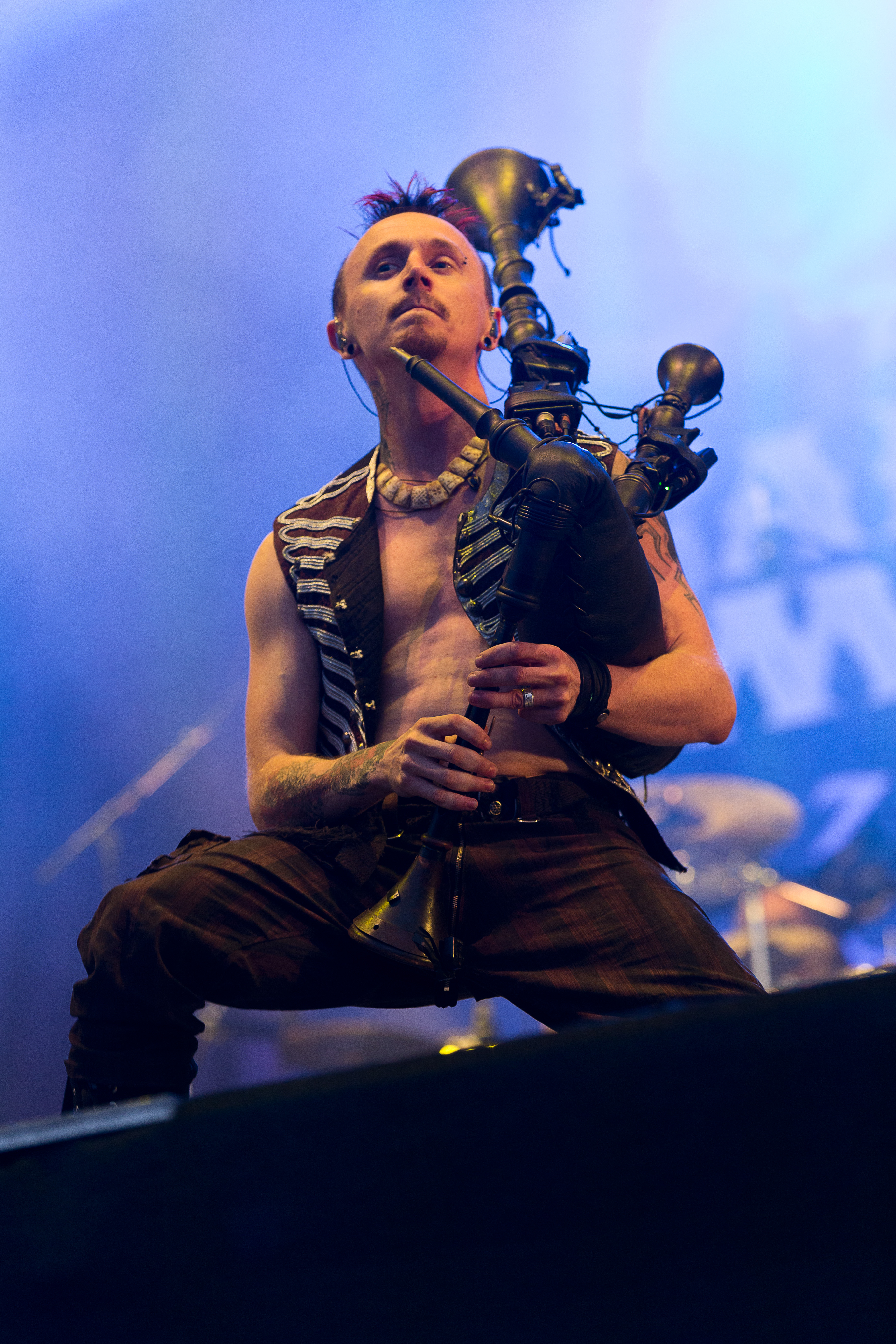 The German medieval folk rock band Saltatio Mortis at the Rockharz Open Air 2016 in Ballenstedt/Germany.